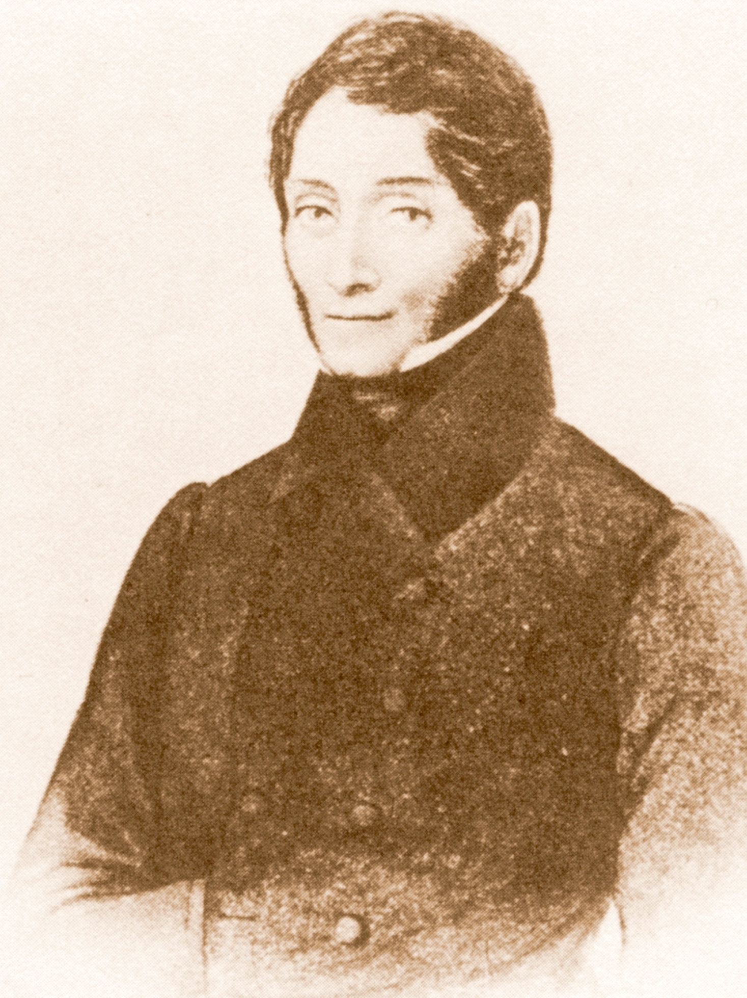 Youth picture of the subsequent entrepreneur and member of the state parliament Johannes Schuchard from Barmen, 27 years old